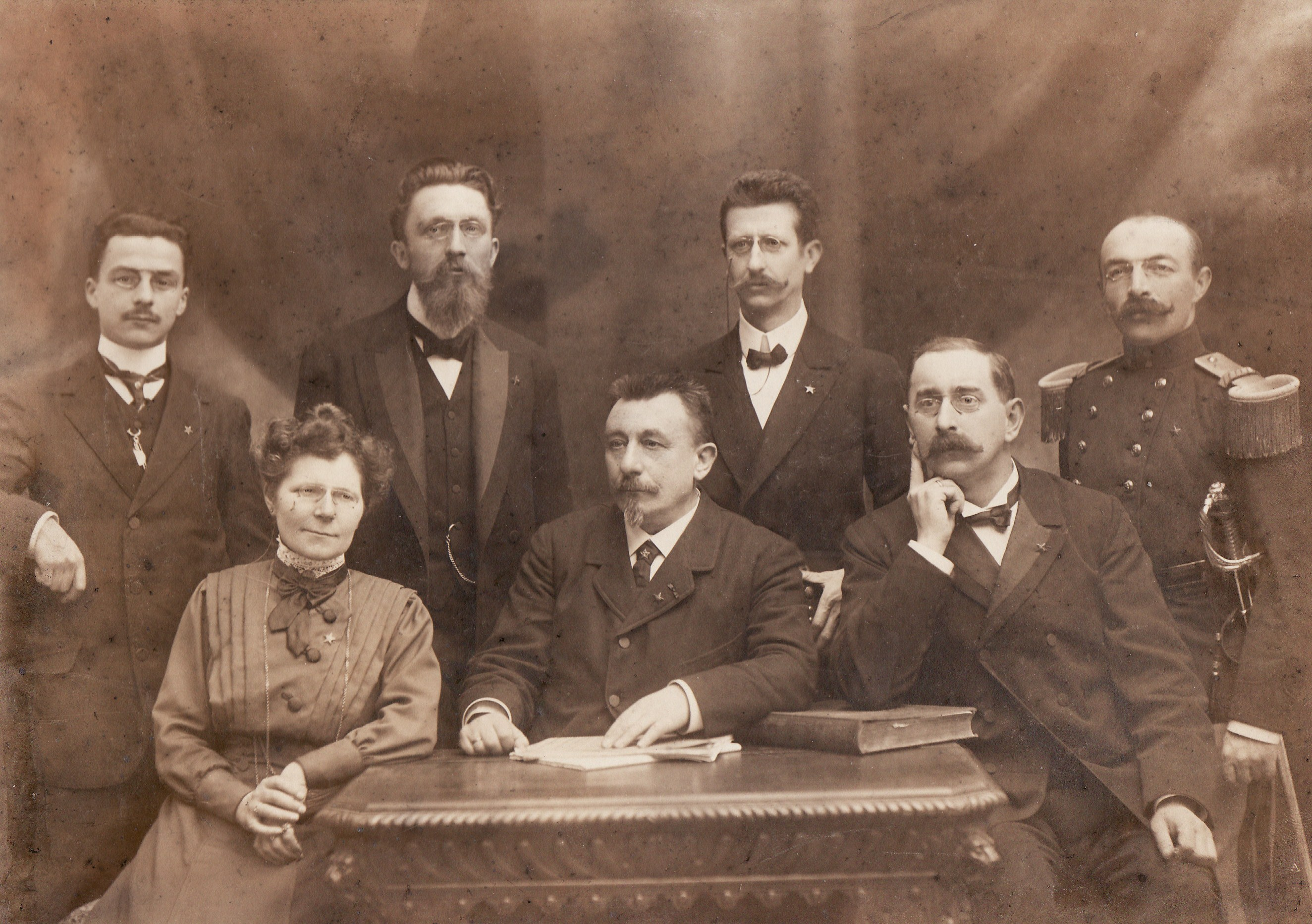 Esperanto Congress in Antwerp (Belgium) Sunday Aug 20-27th 1911; of this photograph there is a copy in the "FelixArchief" 2233-31, Antwerp